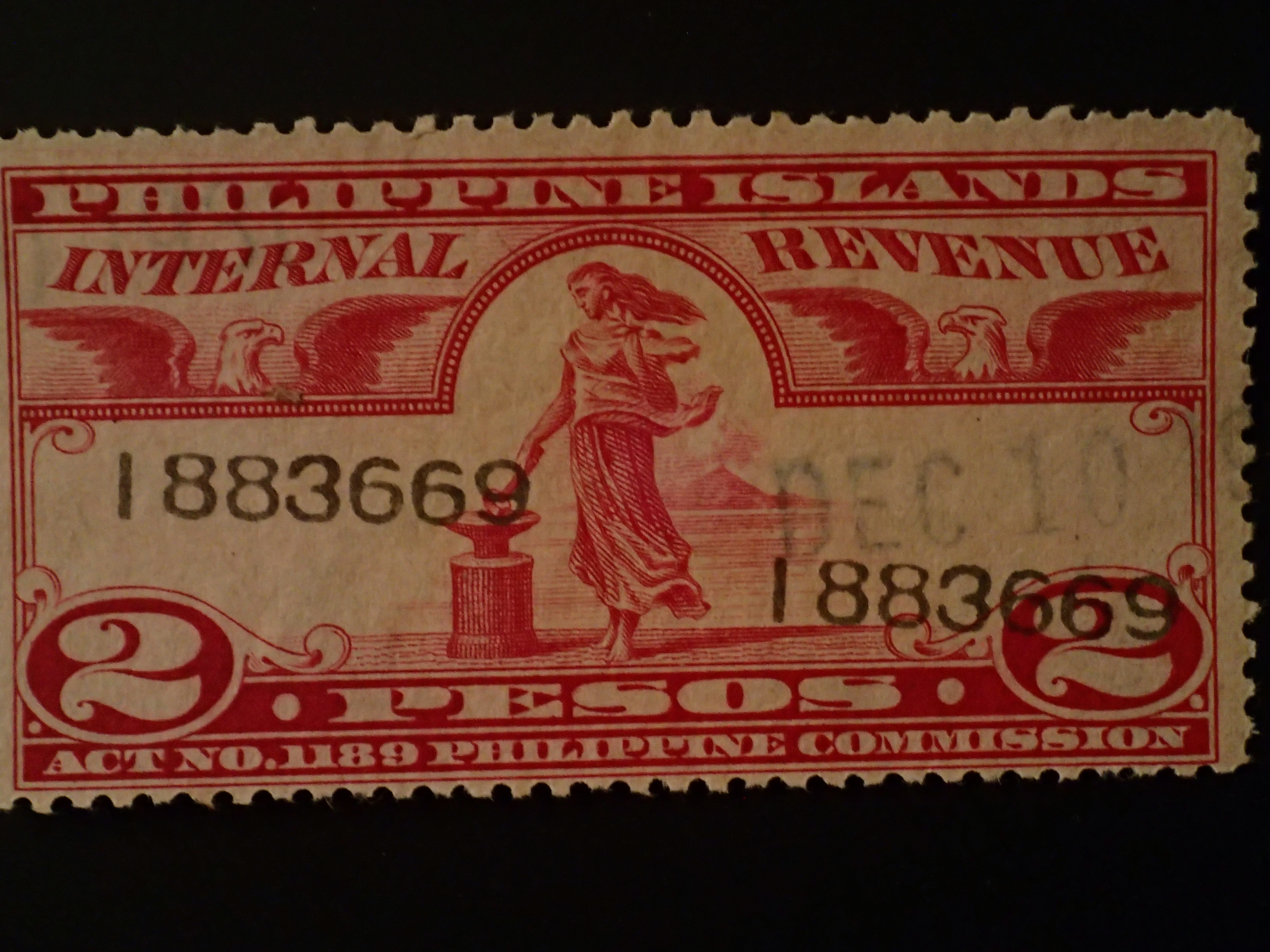 Internal Revenue Stamps of the Philippine Island 1930-1937 printed by the US Bureau of Printing and Engraving for used in the Philippines under US Administration